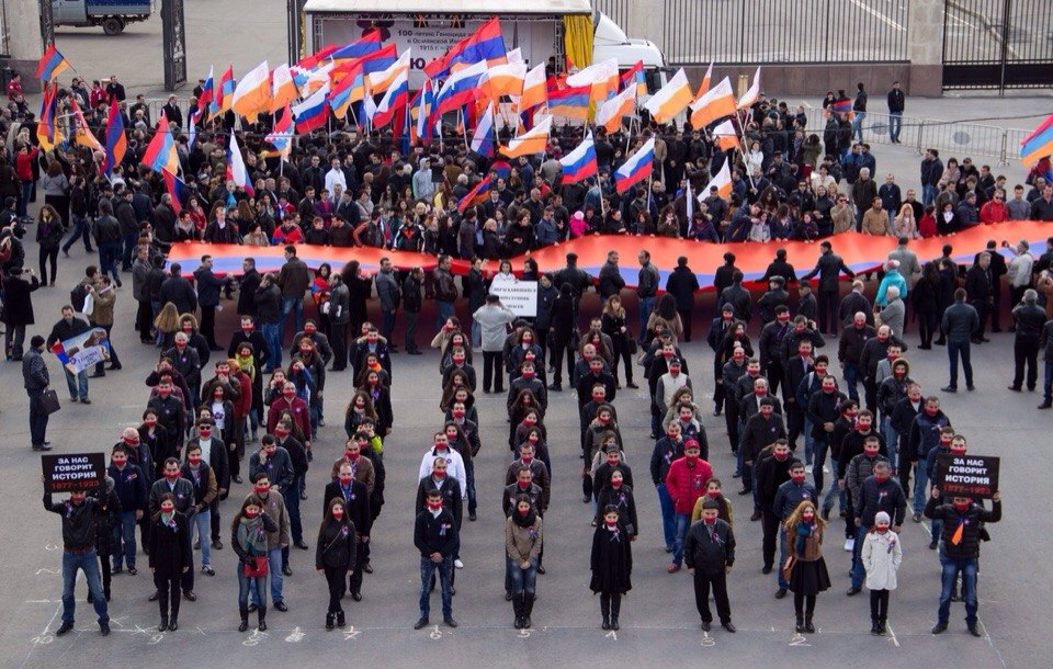 Protests organized by Armenian Youth Congress of Russia (AYCR) against Armenian Genocide denial and in Memory of 1915 Victims.